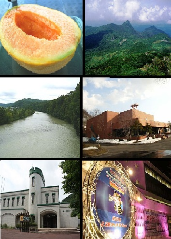 Yubari montage